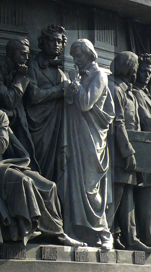 Nikolai Gogol on the Monument «Millennium of Russia» in Veliky Novgorod